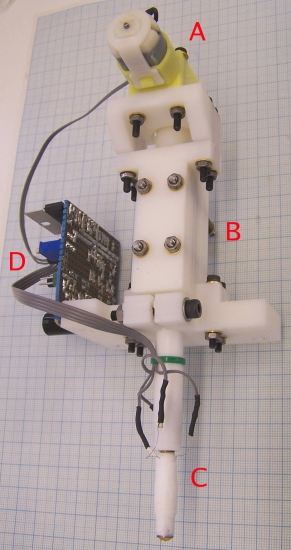 Mk II fused deposition extruder. Photograph taken from and taken presumable by Dr. Bowyer. Materials on the site are open source.